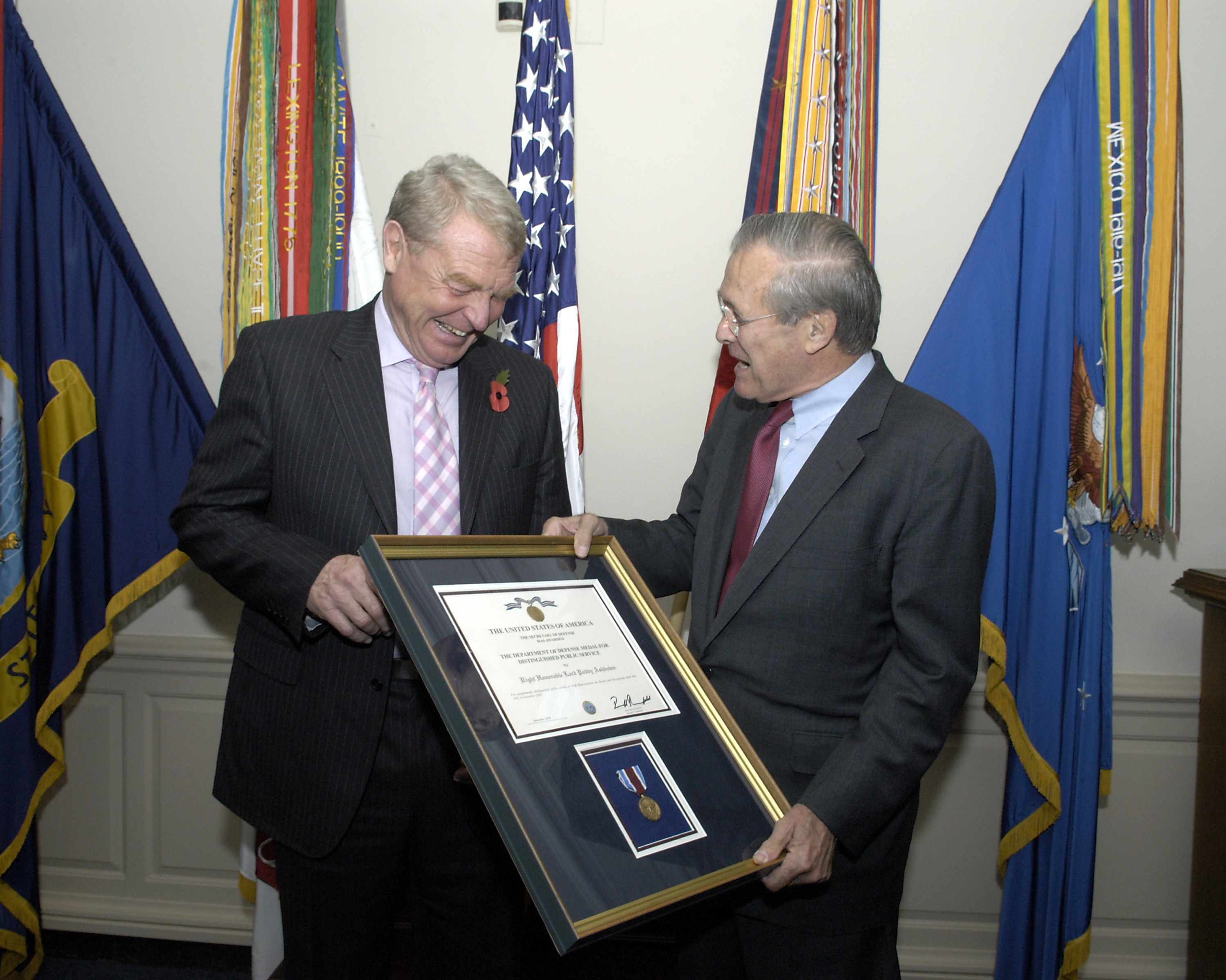 Secretary of Defense Donald H. Rumsfeld (right) presents the Department of Defense Distinguished Public Service Award to Lord Paddy Ashdown for service as High Representative for Bosnia and Herzegovina. Rumsfeld presented the award in the Pentagon following their meeting on Nov. 8, 2004.